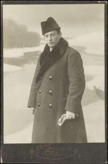 Matisyahu Kolvalsky was a member of the Vilna Troupe. His name is also spelled Matus Kowalski or Kowalsky. 1918